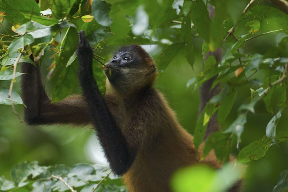 Spider Monkey (Ateles geoffroyi ornatus) browsing, showing the exceptionally long limbs that give them their name, in Tortuguero, Costa Rica.